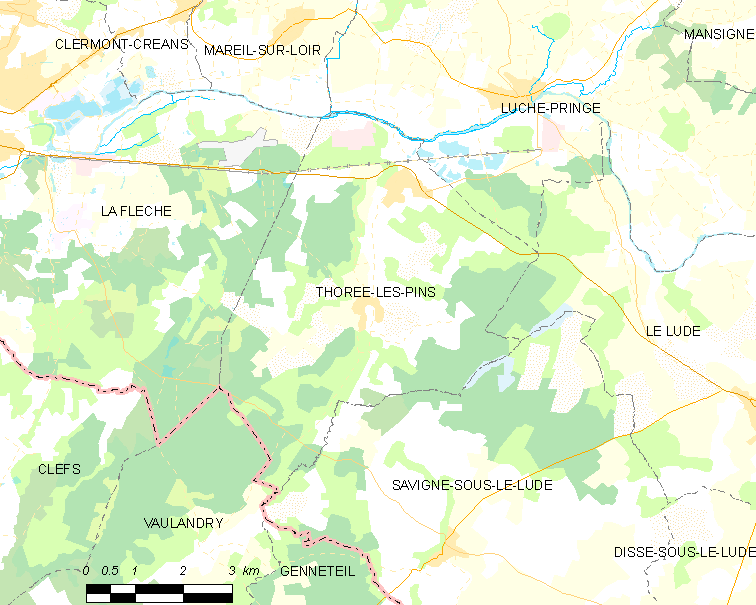 Map of French municipality